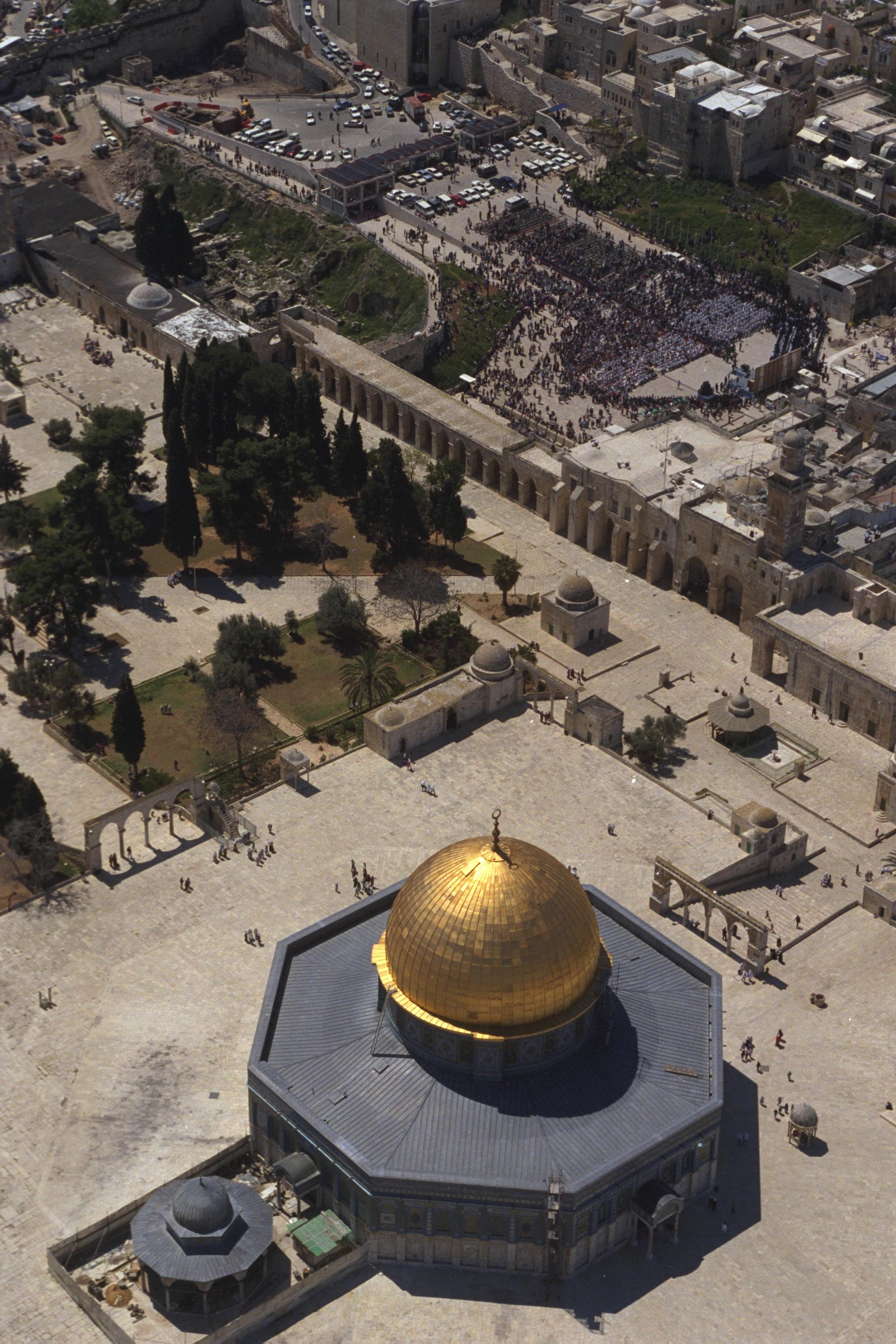 A bird's-eye view of the Temple Mount with the Mosque of Omar in the foreground and the Western Wall in the background. מבט עילי על כיפת הסלע, ירושלים Photo: Moshe Milner (1946–) Alternative names Miylner, Moše; Milner, Mosheh; Moshé Milner; Milner, M.; Mîlner, Moše; Miylner, MošehDescriptionIsraeli photographerצלם ישראליDate of birth 1946 Location of birth Germany Authority control : Q28750411 VIAF: 100999744 ISNI: 0000 0001 0804 0507 LCCN: n82072104 GND: 115699732 BNF: 15548788n WorldCat creator QS:P170,Q28750411 , 05/06/1995